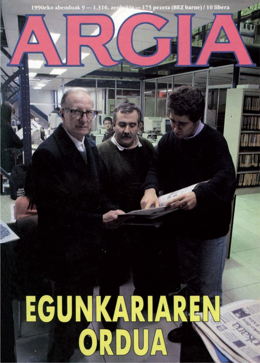 Martin Ugalde, Josemi Zumalabe and Imanol Murua. Some of the creators of the Euskaldunon Egunkaria journal in Basque language